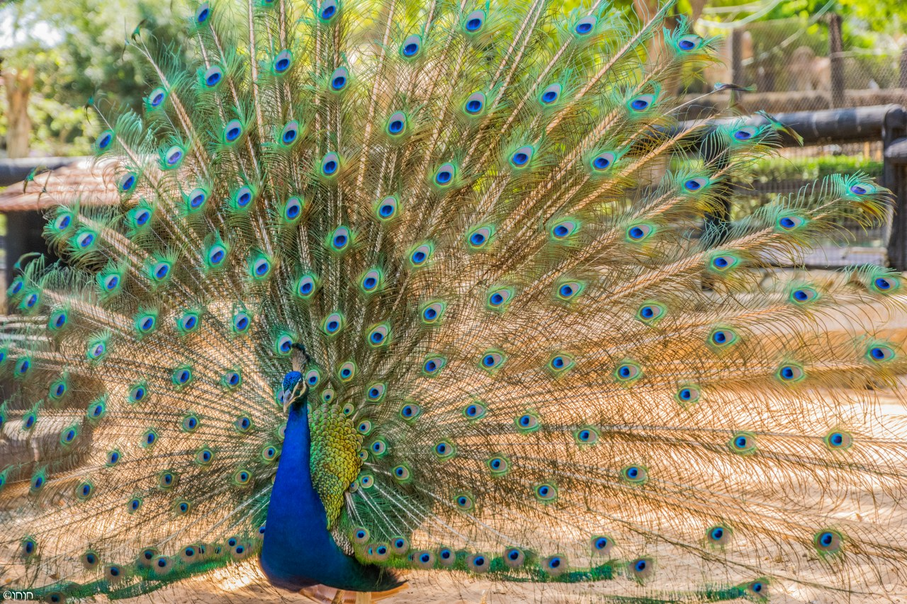 PEACOCK